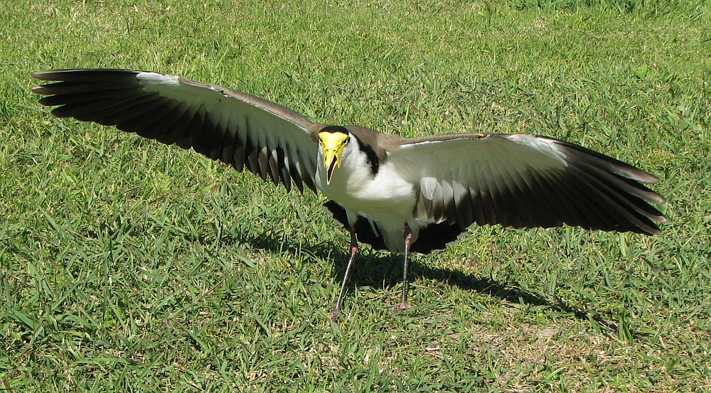 Vanellus miles (Masked Lapwing) Defensive posture.